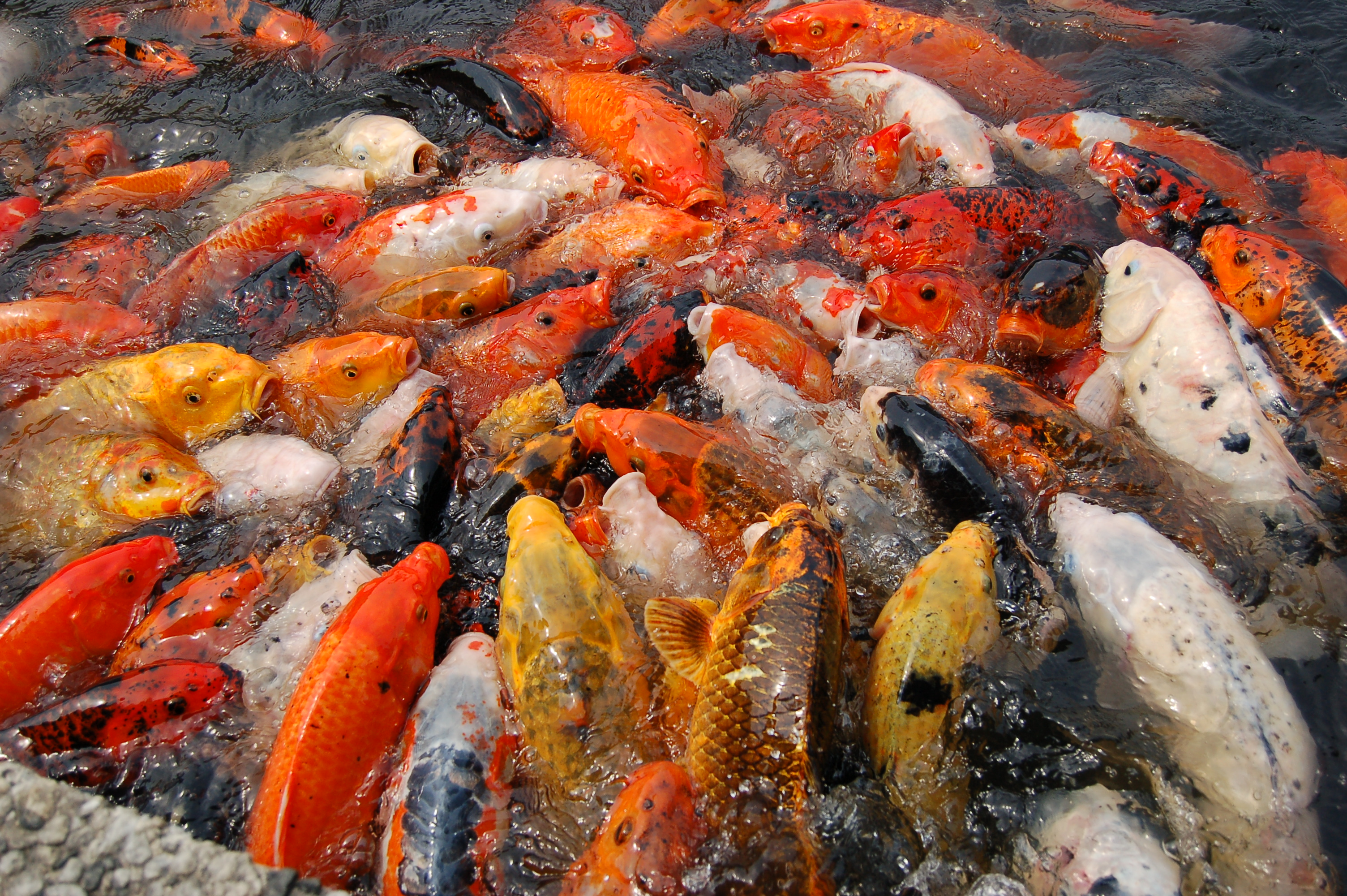 Koi at the United States National Arboretum located in Washington, D.C.